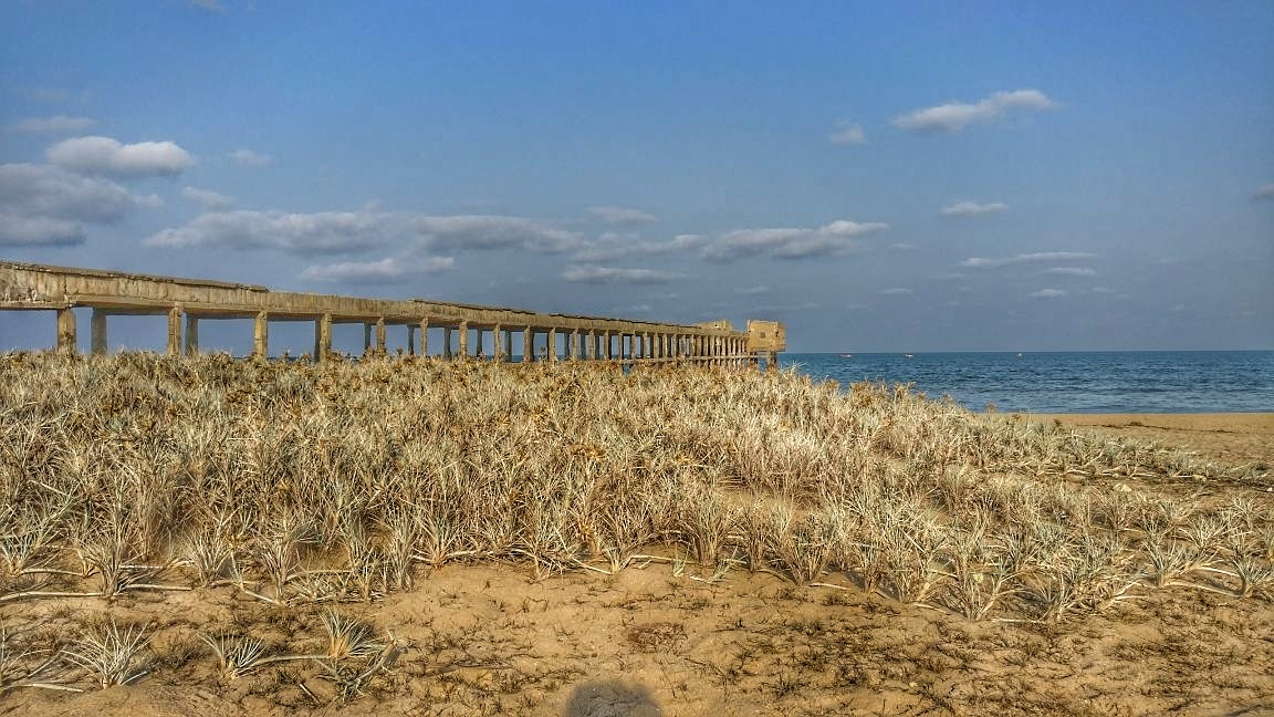 Mypadu beach in SPSR Nellore District